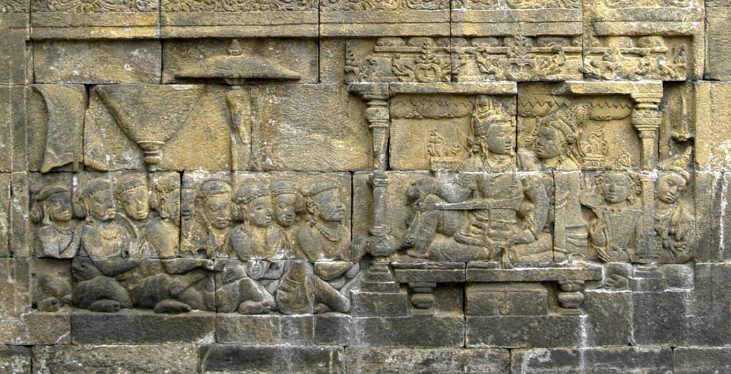 The bas relief of 8th century Borobudur depicted the palace scene of King and Queen accompanied by their subjects. Its strongly suggested that the relief depicted the actual scene of Sailendran royal court.